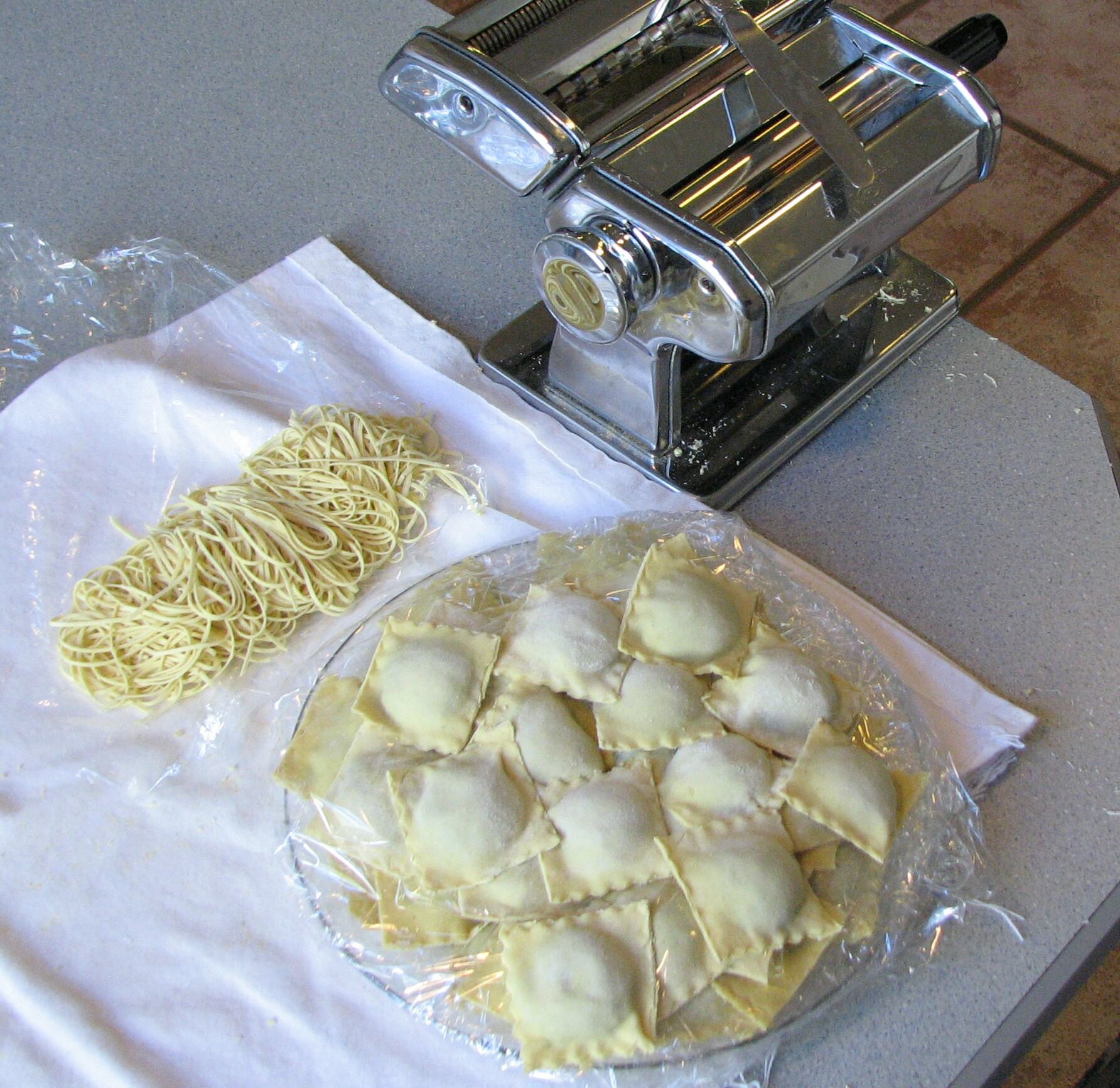 Finished ravioli and "chitarra" or guitar pasta, made from alkaline pasta